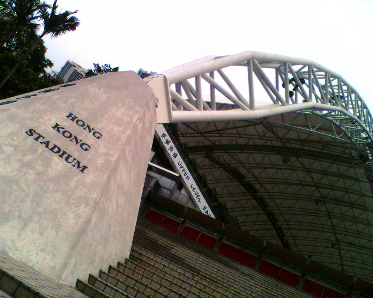 Steel frame of eaves of Hong Kong Stadium (Original text: 香港大球場天蓬支撐鋼架)